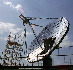 NPO Astrophysica dish test facility at Gribanovo, Krasnogorsky District, Moscow Oblast, Russia